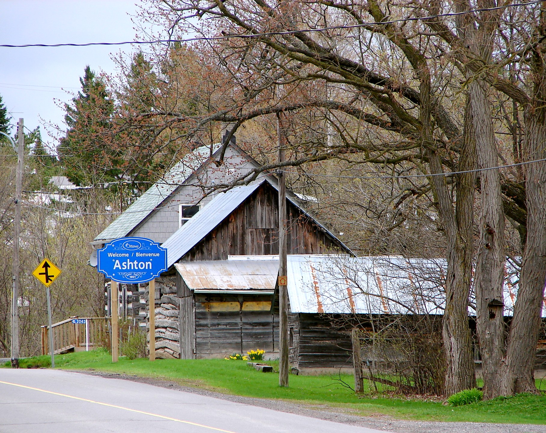 Ashton (on the boundary of City of Ottawa and Lanark County), Ontario, Canada